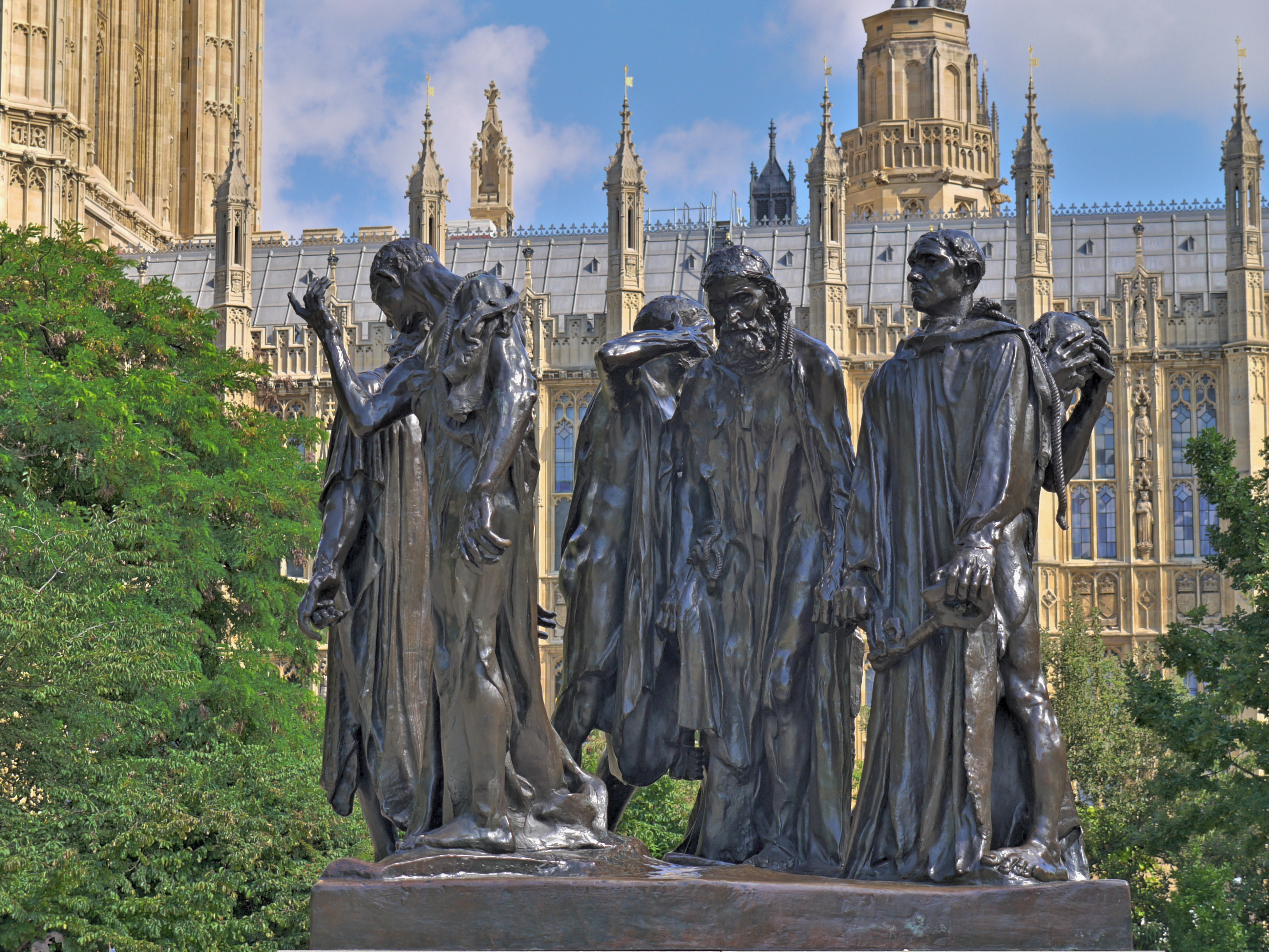 The Burghers of Calais statue by Rodin in Victoria Tower Gardens, Westminster, London. The statue commemorates six citizens of Calais who offered themselves as hostages to Edward III after he had vainly besieged their town for nearly a year in 1347.It is said that their lives were spared on the intercession of Edward's queen Philippa of Hainault.